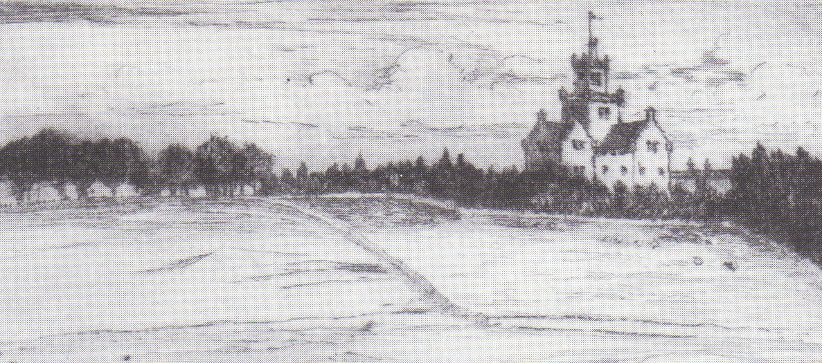 Nettlehirst House, circa 1900, Barrmill, North Ayrshire, Scotland.